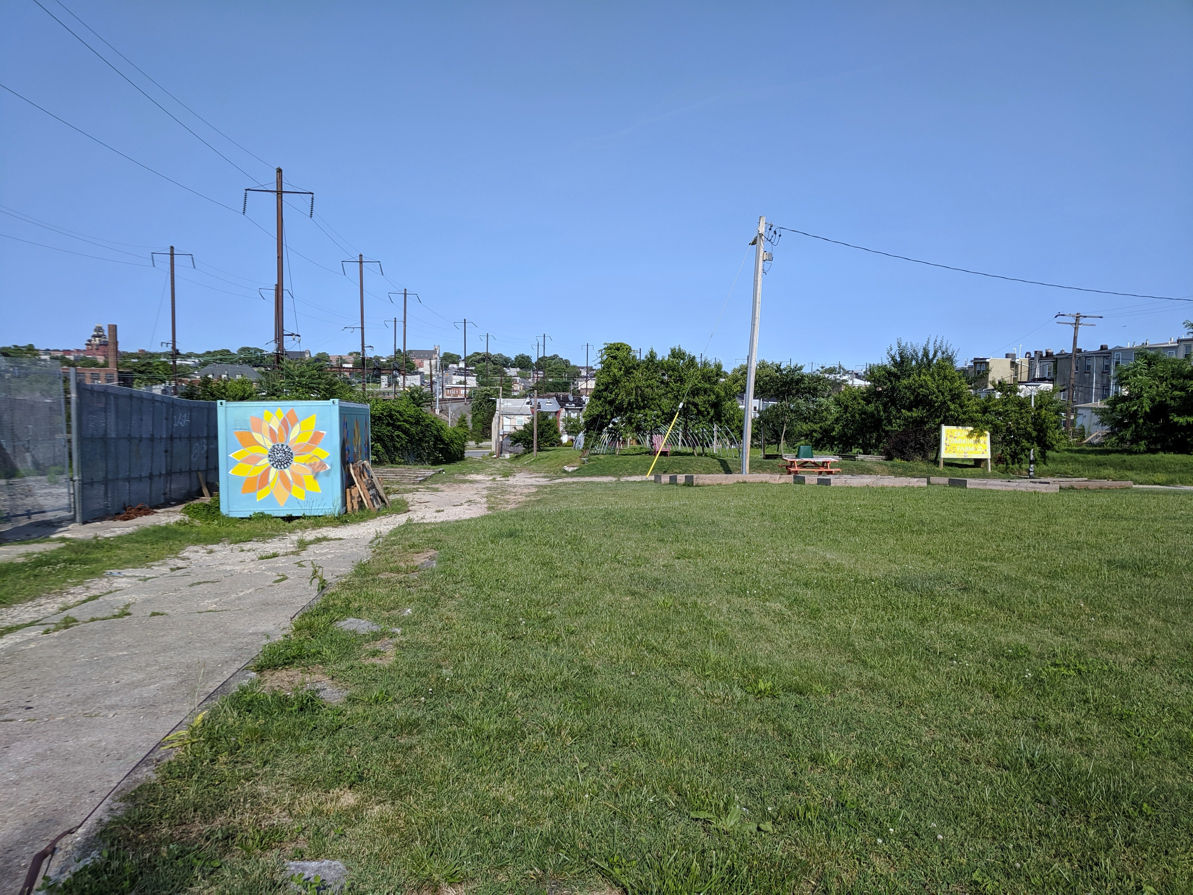 Oliver Community Farm on Ellsworth Street in Oliver, Baltimore.